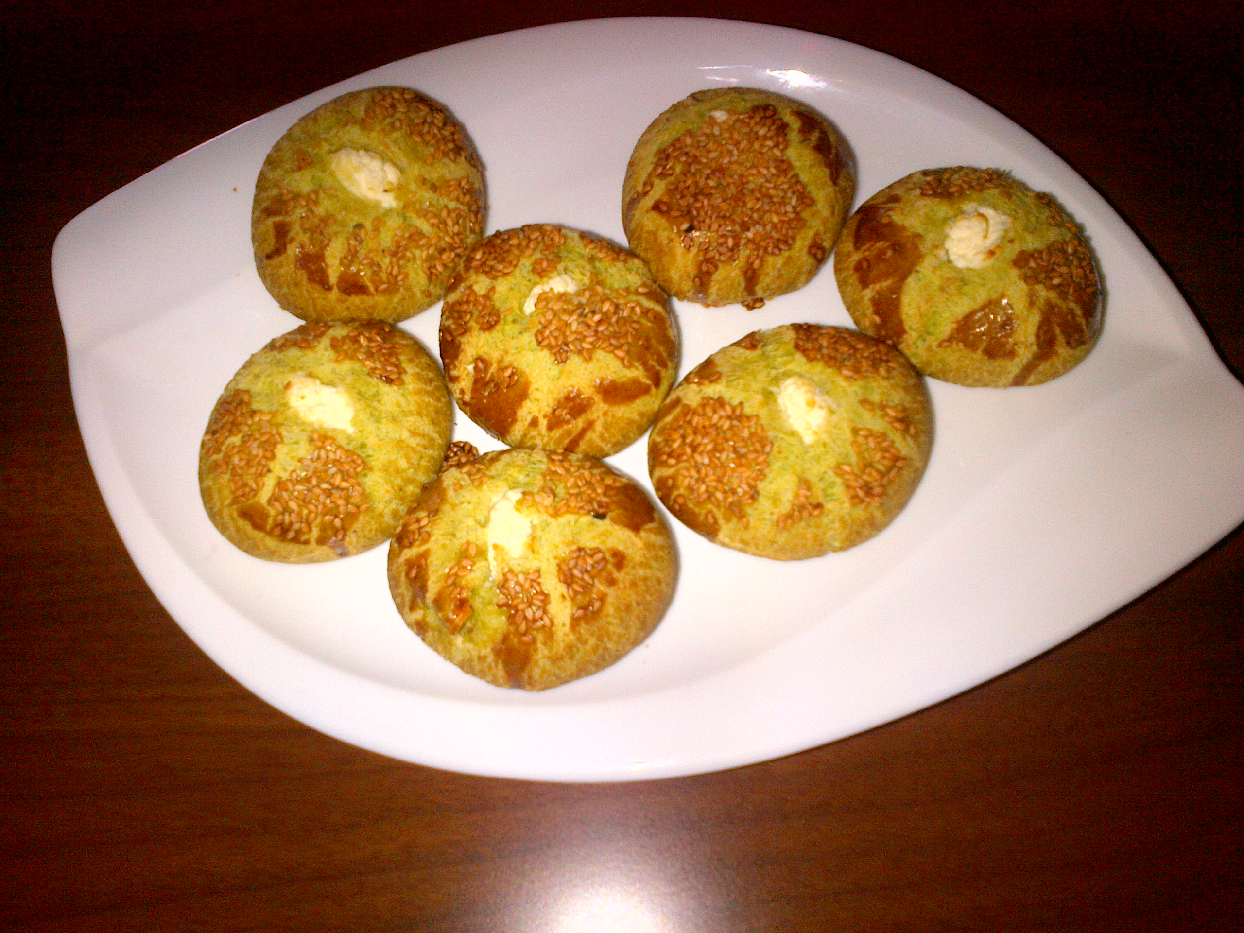 Turkish "poğaça"s with dill (notice the green colour of the dough) and "lor" cheese.